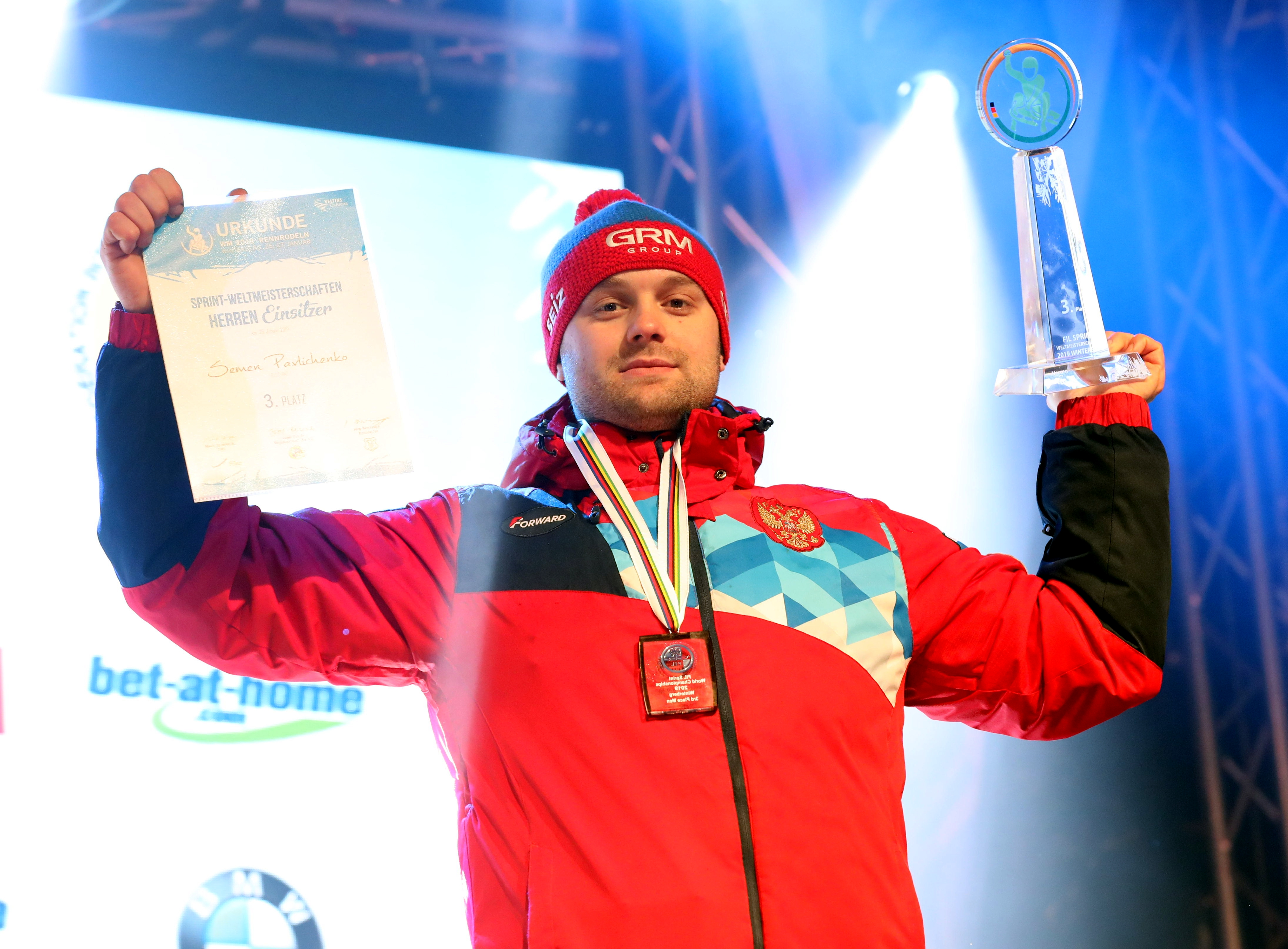 Sprint World Championships Victory Ceremonies (Friday) at the FIL World Luge Championships 2019 in Winterberg